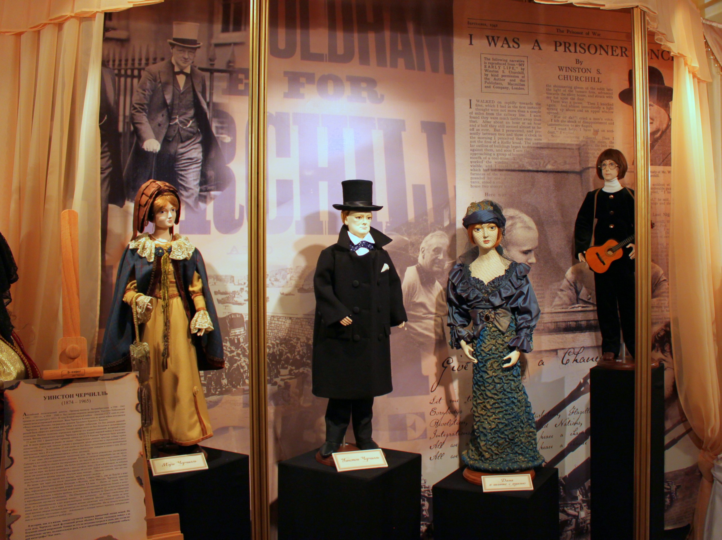 Dolls made by Olina Ventsel (1938-2007) (Winston Churchill in the middle)